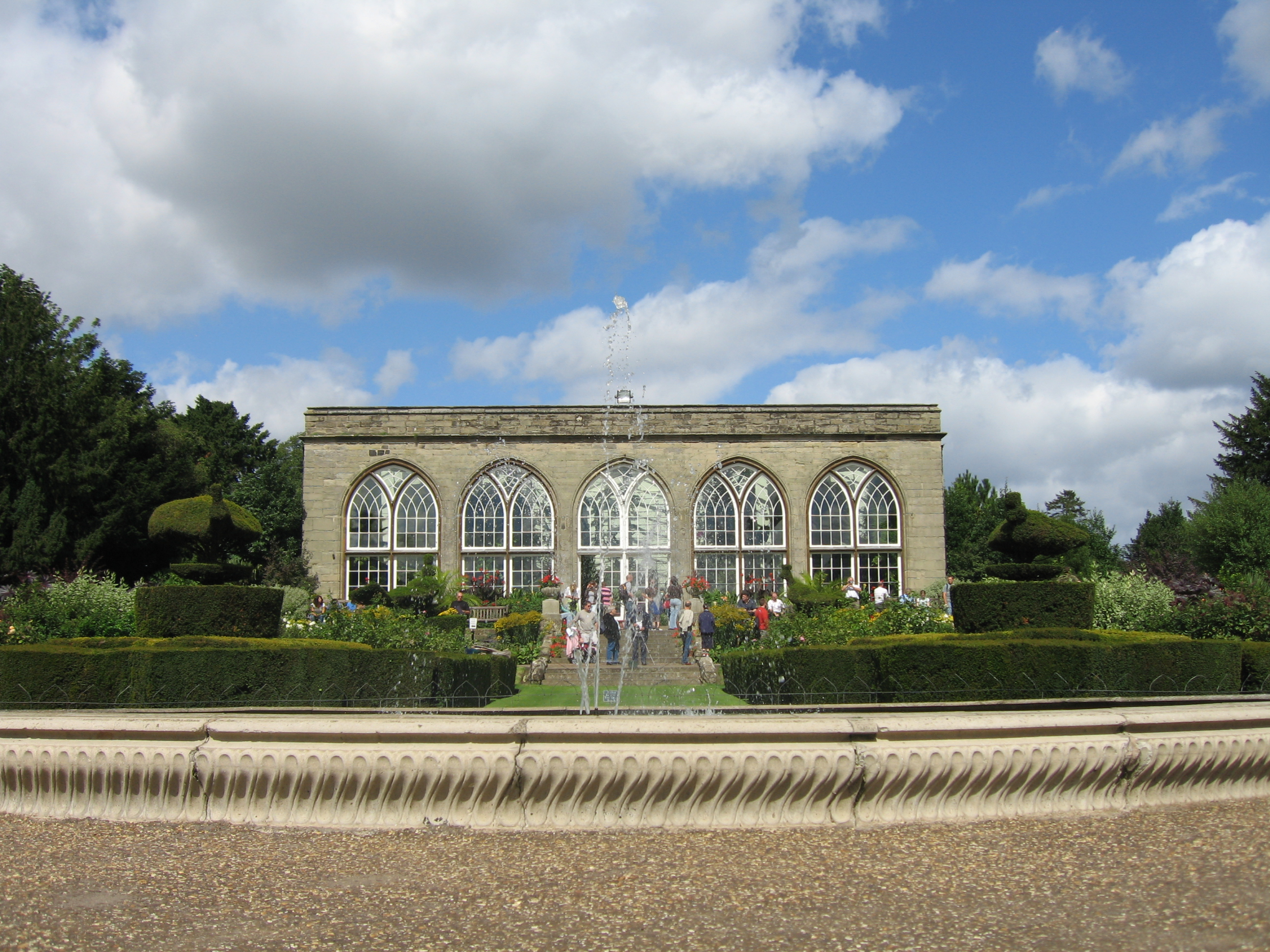 Peacock Garden, Warwick Castle